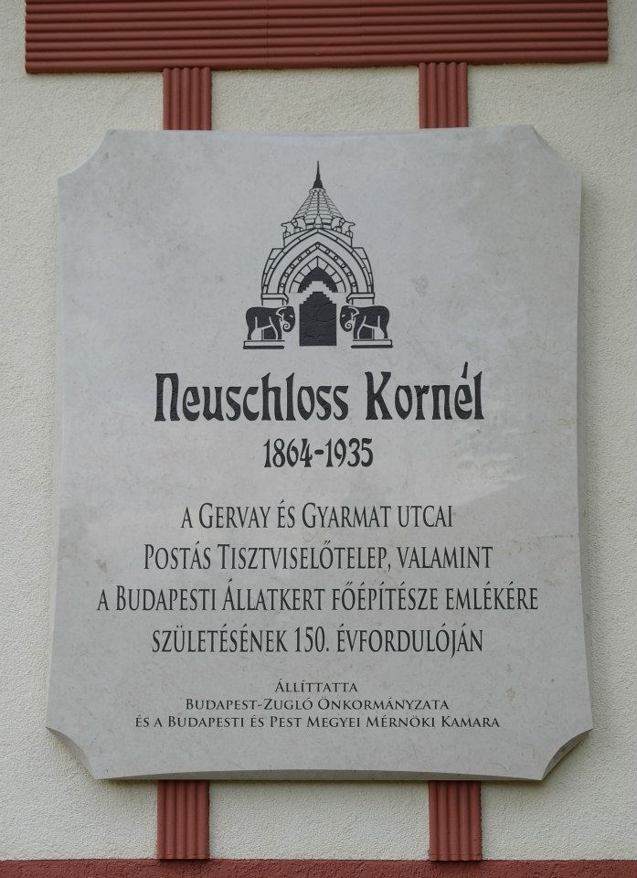 Kornél Neuschloss commemorative plaque in Budapest District XIV, Gyarmat Street No 96.